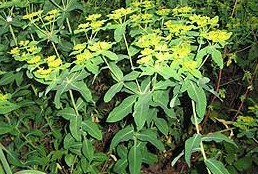 Euphorbia oblongata. NPS photo, no copyright. Cropped.